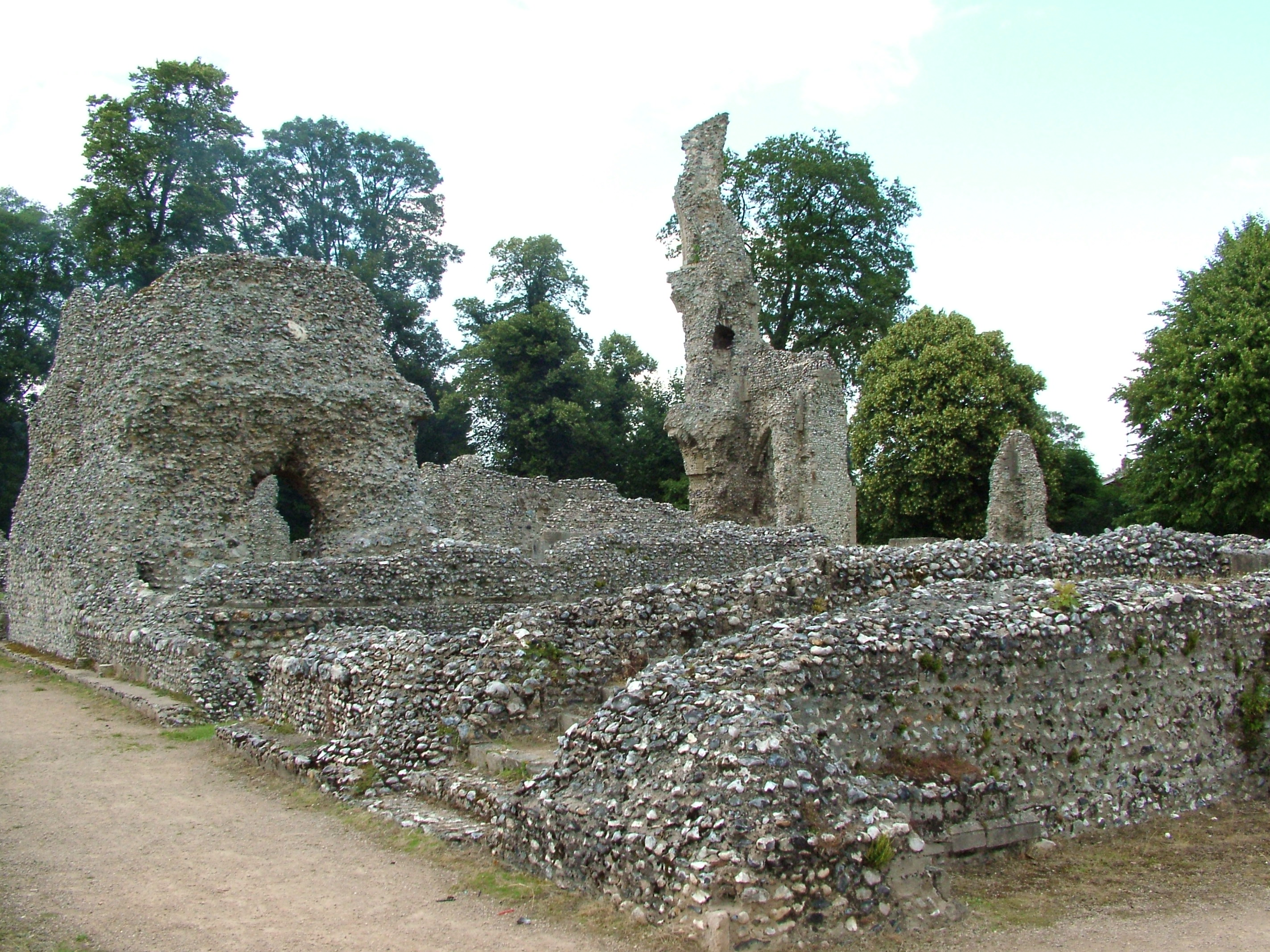 Thetford (Norfolk), ruins of 12th-century medieval Priory [not train station]